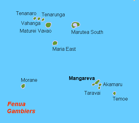 Map (rough) of the Gambier Islands, French Polynesia, own work composed from various mapreferences